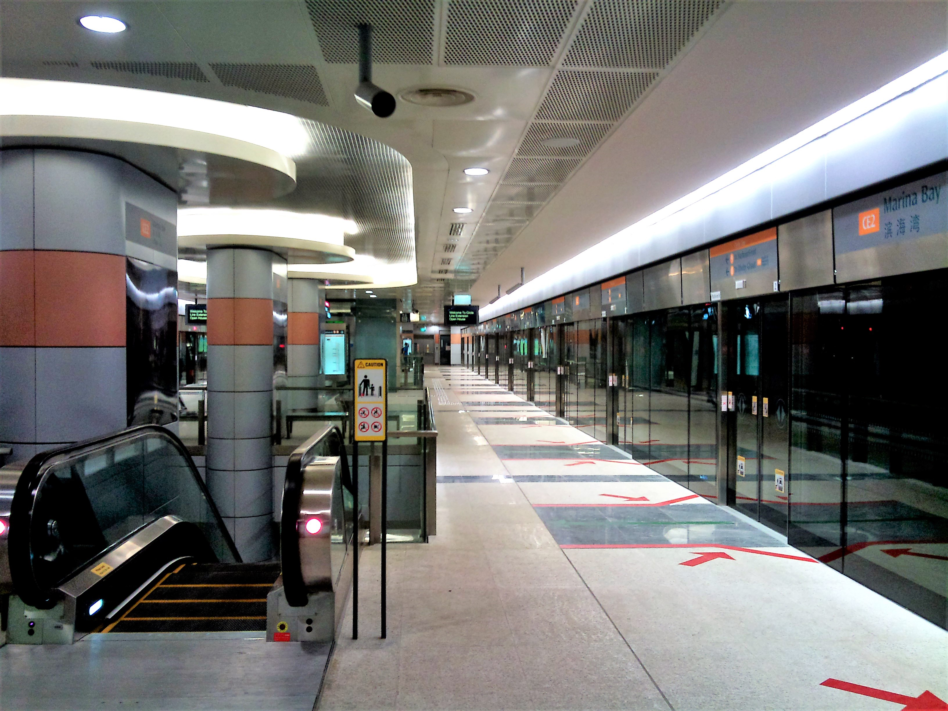 Picture of the Circle Line platform at Marina Bay MRT Station.